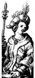 Sophia of Halshany, Queen of Poland and Grand Duchess of Lithuania, wife of Jogaila.